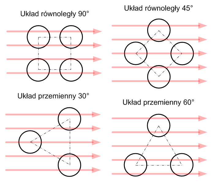 Shell and Tube Heat Exchanger - Tube Arrangement